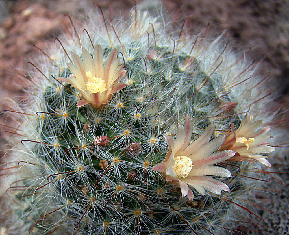 A species of northern and central Mexico, with variable flower color and "fish hook" spines. Known in English as the Snowball or Powder Puff Cactus. Jardin Real, Madrid.